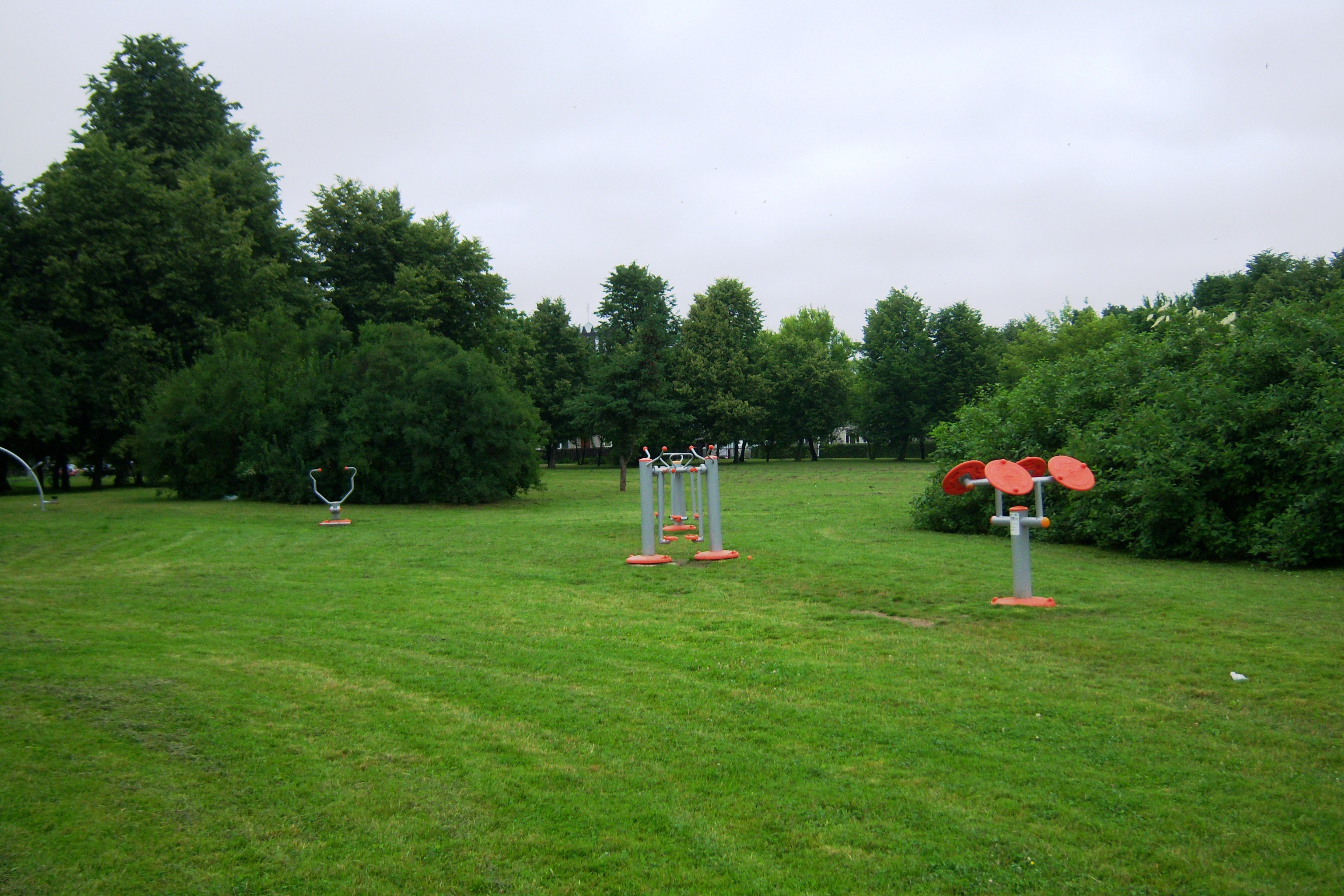 Antakalnio park, Aleksotas, Kaunas, Lithuania